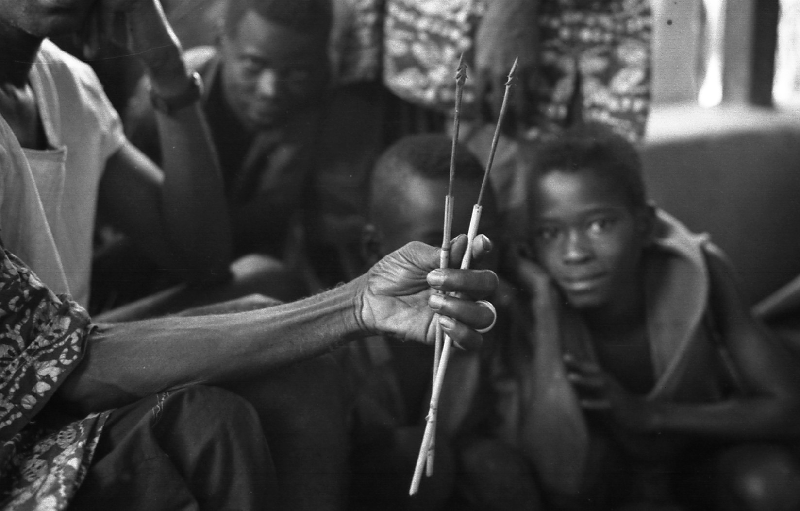 Photo taken in 1967 or 1968 at Bafodia, capital of Wara-Wara Bafodia Chiefdom, northern Sierra Leone. G. H. Garrett, travelling in this area in 1890, wrote "Their weapons consist of spears, and bows and arrows, the latter poisoned; the heads are barbed and bent, which gives them a rotary motion and enables them to dispense with feathers." (Source: Proceedings of the Royal Geographical Society, 1892, pp. 444-445)